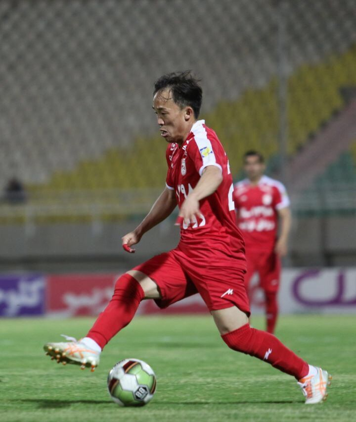 Sugi playing for Tractor Sazi S.C.